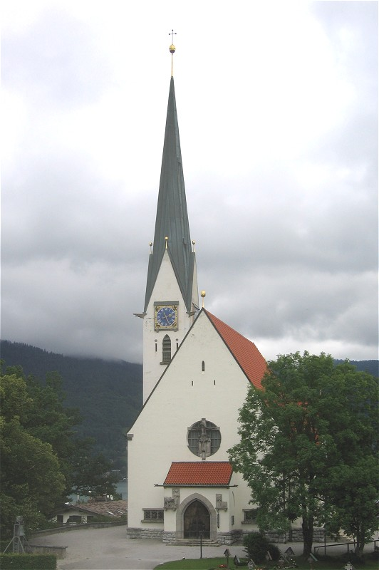 Bad Wiessee, Parish Church of the Assumption from south-west.